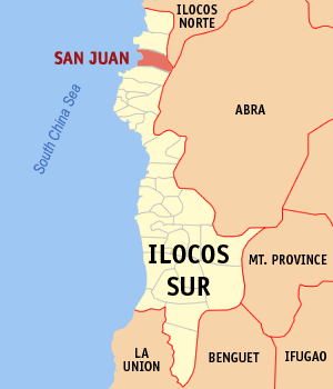 Map of Ilocos Sur showing the location of San Juan